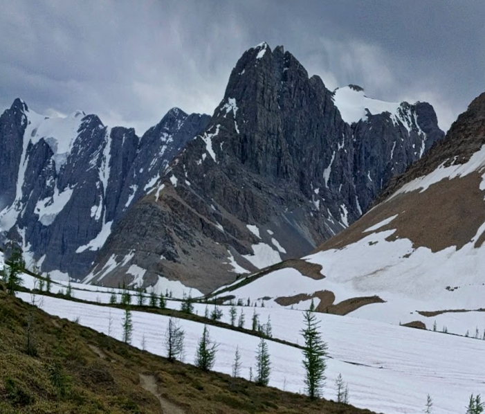 Mount Gray of Vermilion Range seen from Rockwall Pass, Kootenay Park, Canada